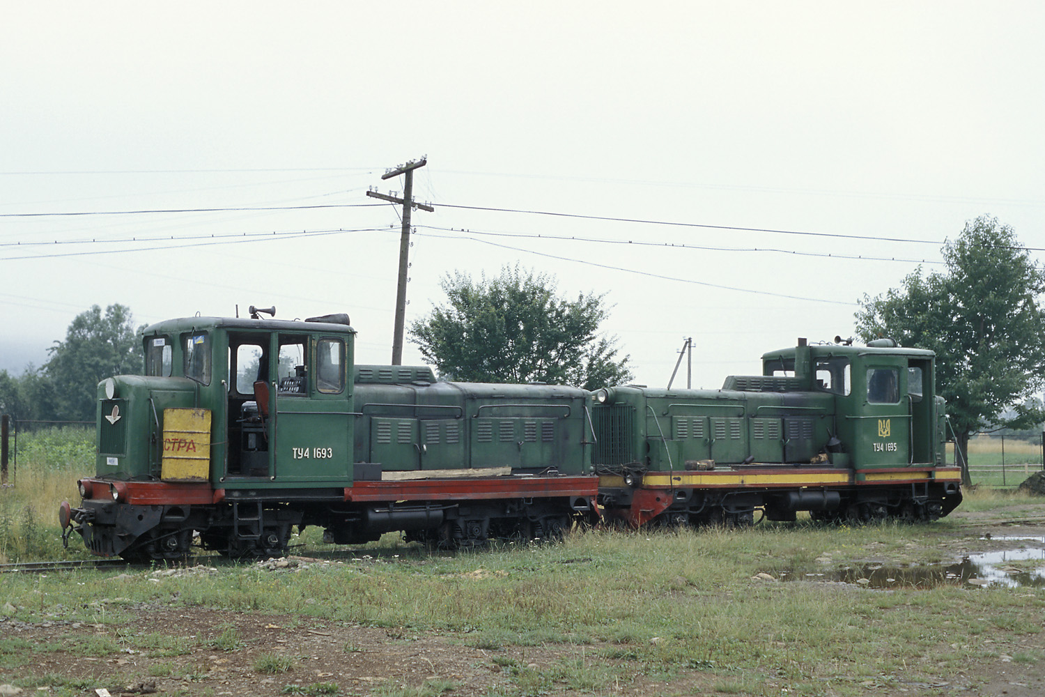 ТУ4-1693 + ТУ4-1695 in Vyhoda (Ukraine)